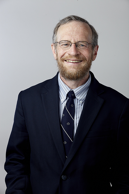 Professor Richard Alley, Royal Society Foreign Member elected 2014. Attribution: The Royal Society